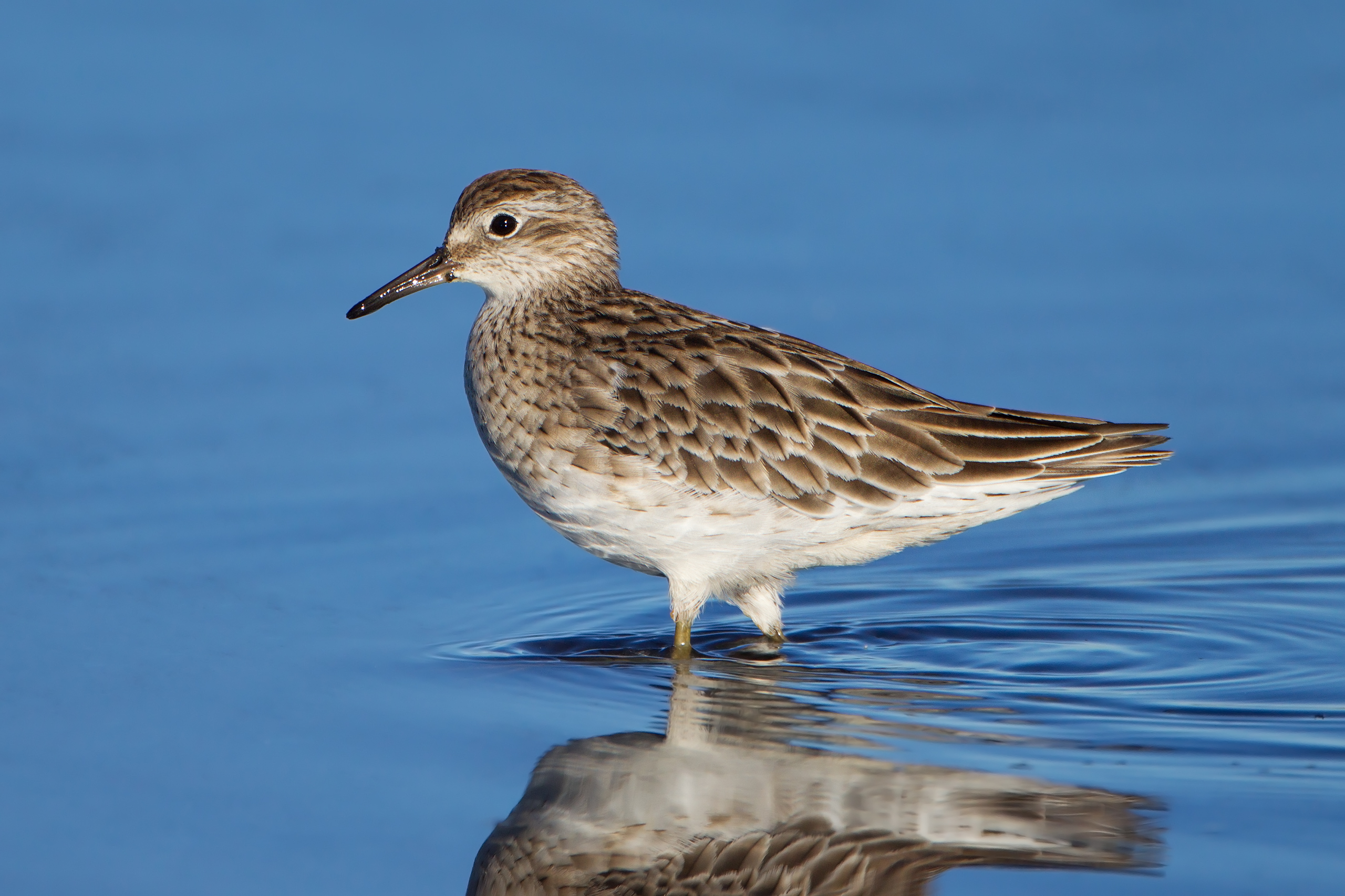 Sharp-tailed Sandpiper (Calidris acuminata), Hexham Swamp, Newcastle, New South Wales, Australia